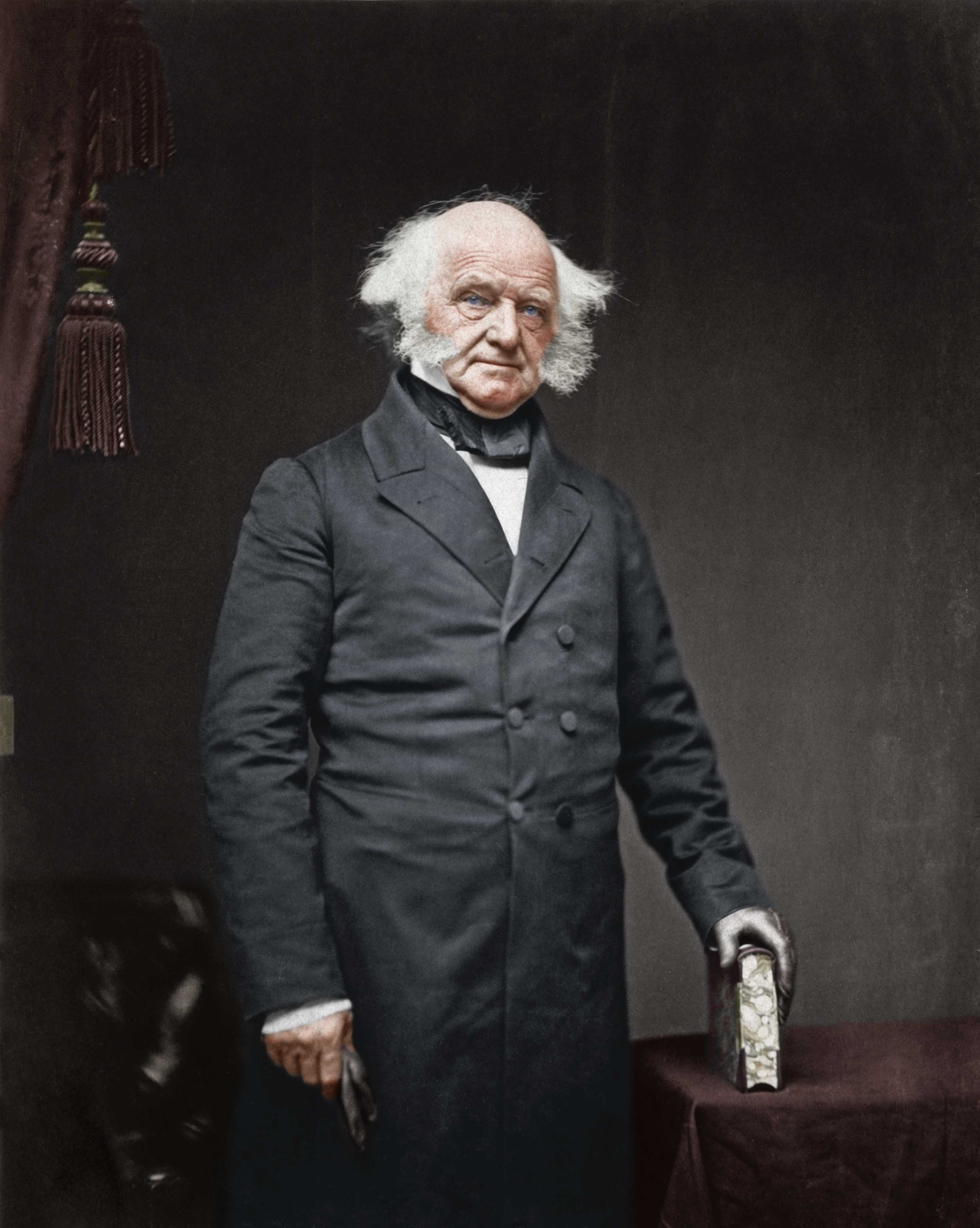 Colorized portrait of MartinVanBuren from a Matthew Brady photograph